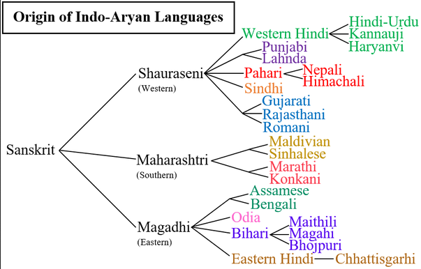 A chart of the Indo-Aryan languages